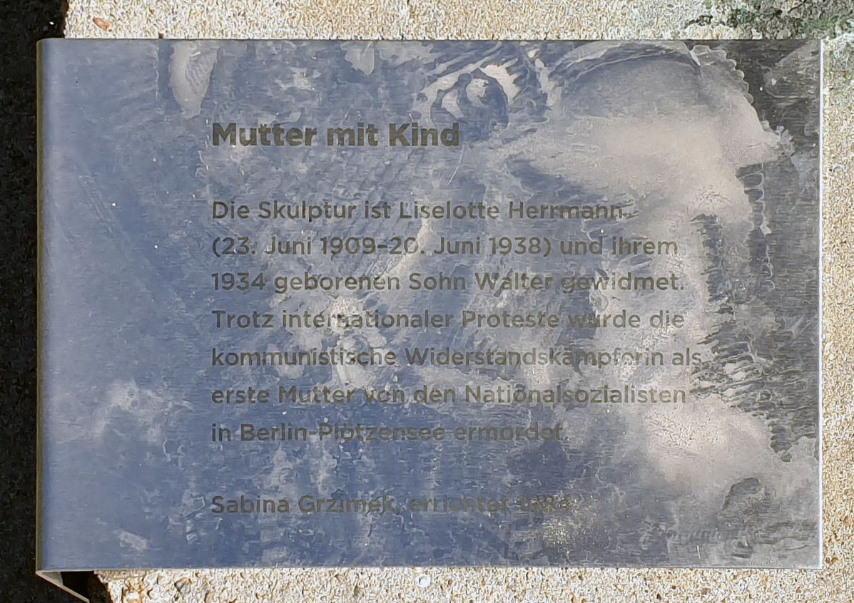 Memorial plaque, Liselotte Herrmann, Freiaplatz, Berlin-Lichtenberg, Deutschland